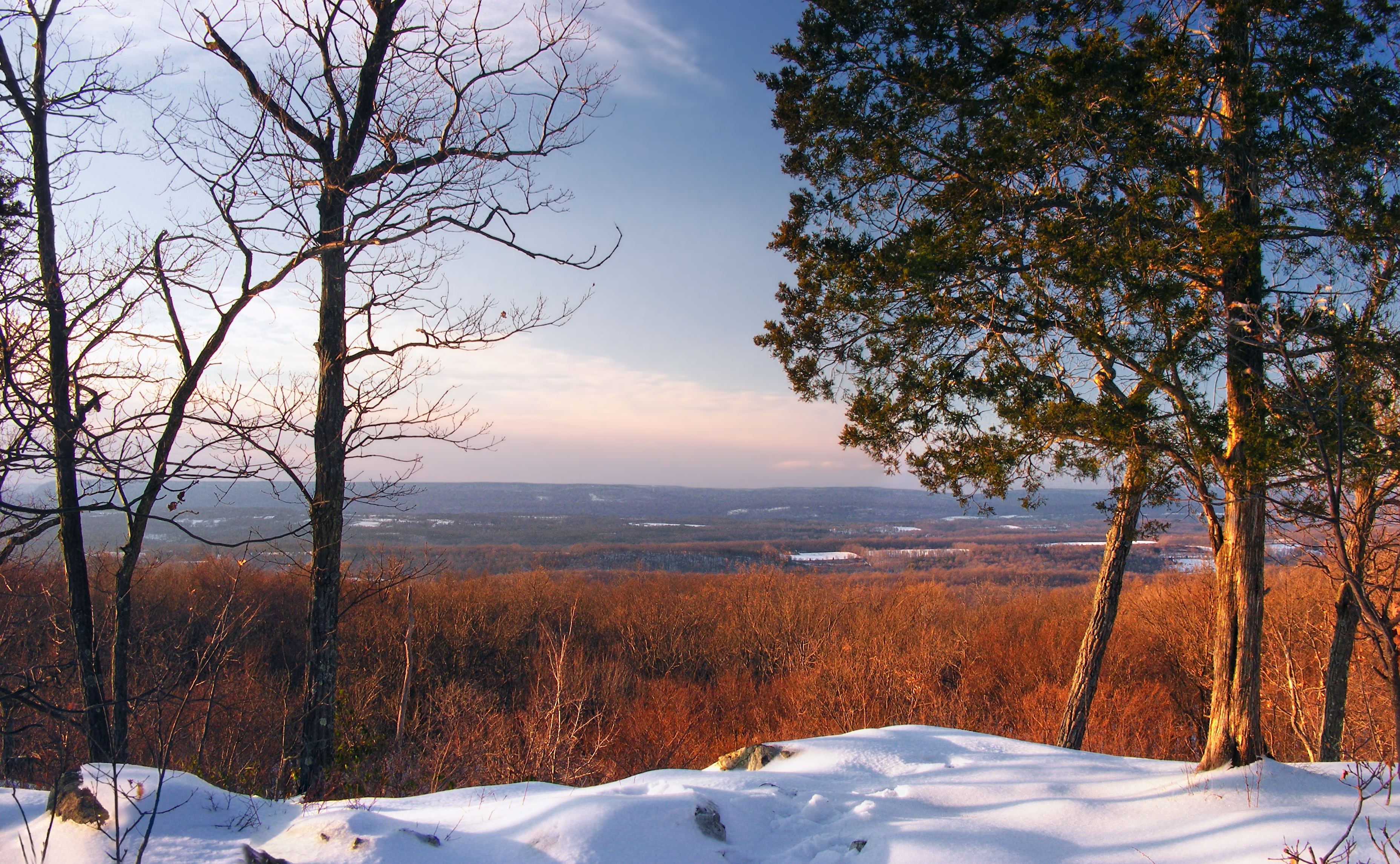 Late-day light, Jenny Jump Mountain, Warren County.